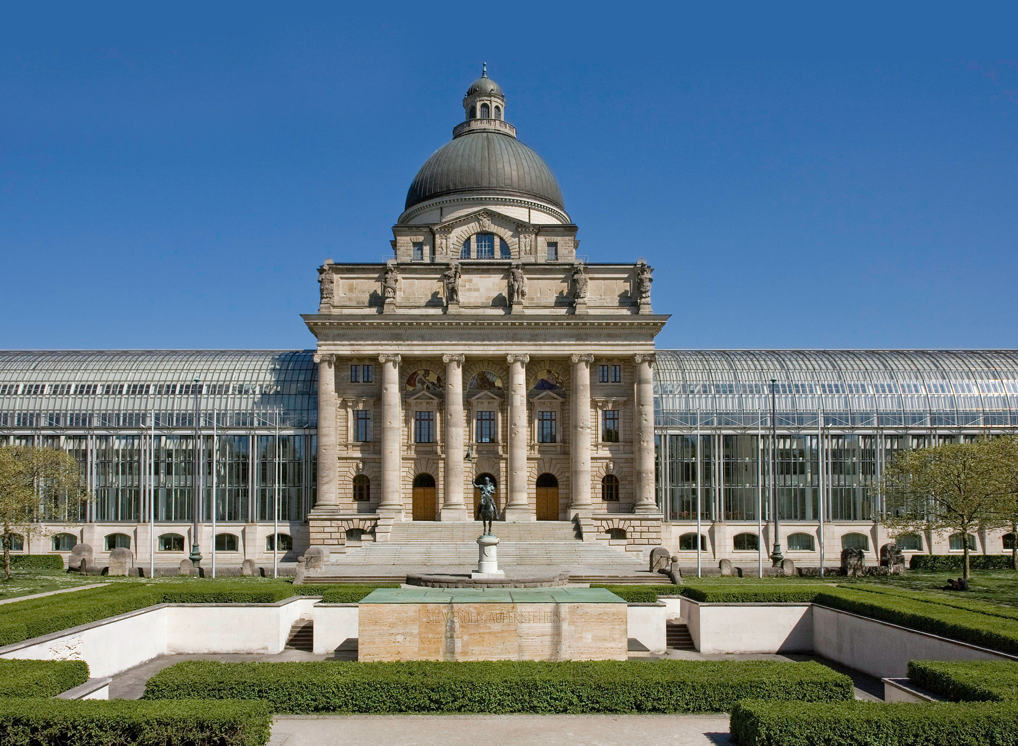 Bavarian state chancellery, minister president's office, Munich